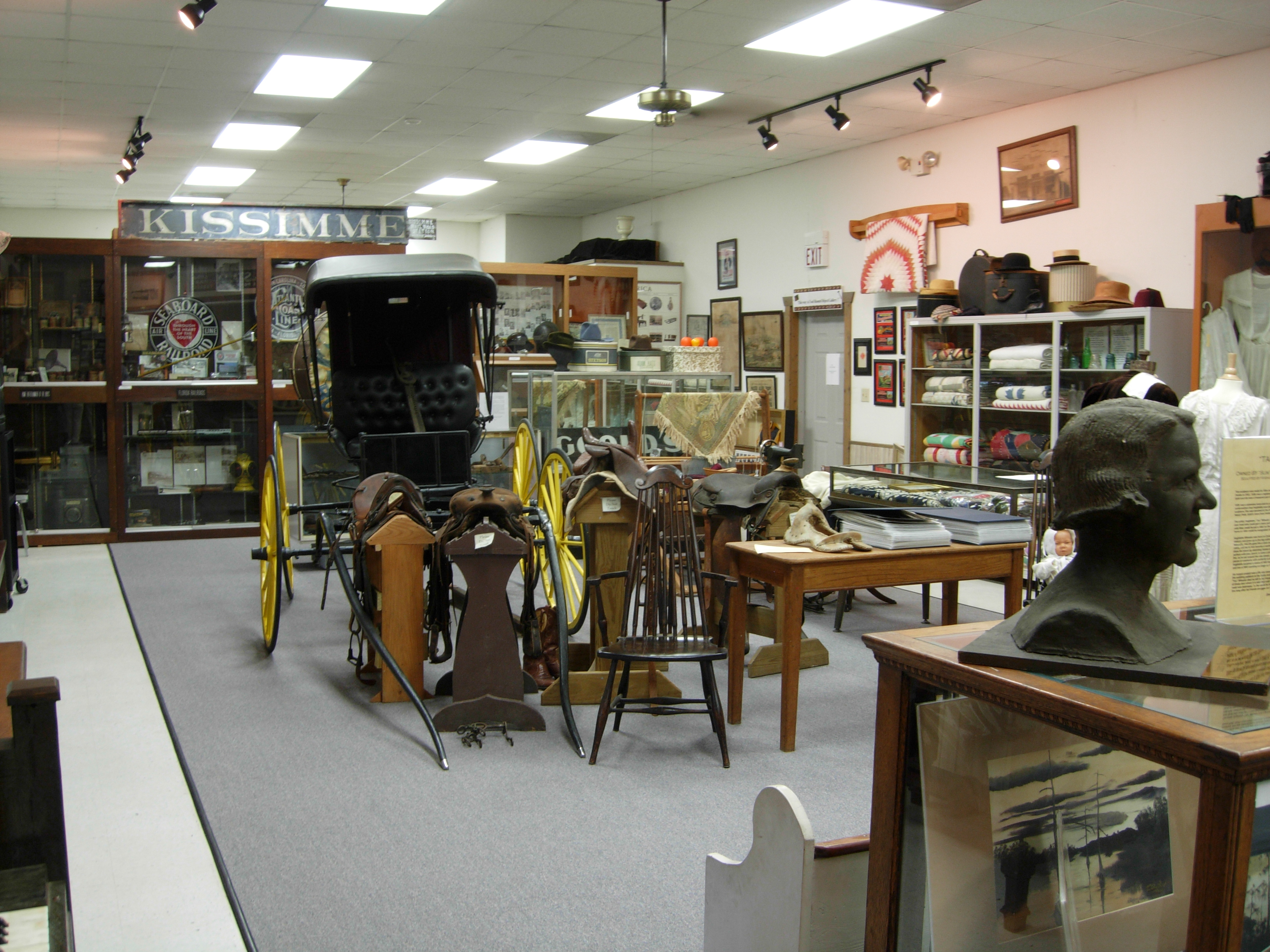 Kissimmee.